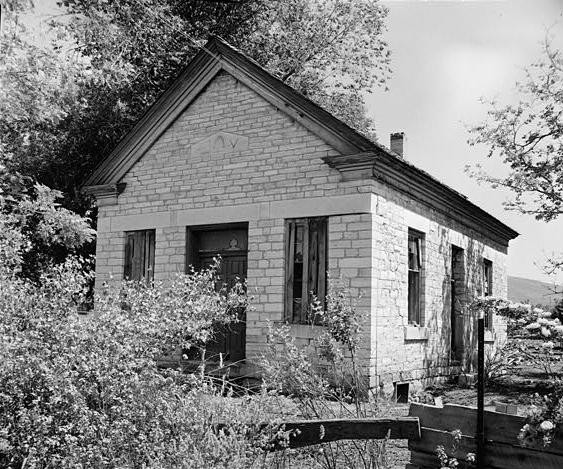 So-called Endowment House or Masonic Lodge, B Street, Spring City, Utah.